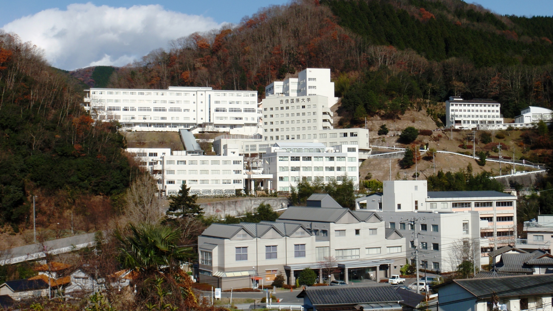 Kibi International University in Takahashi, Okayama Japan.